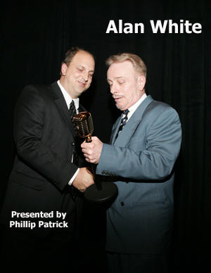 Alan White being presented with award upon induction into the American Swing DJs Hall of Fame in 2005. (Also featured, Atlanta dance promoter & DJ Phillip Patrick.)